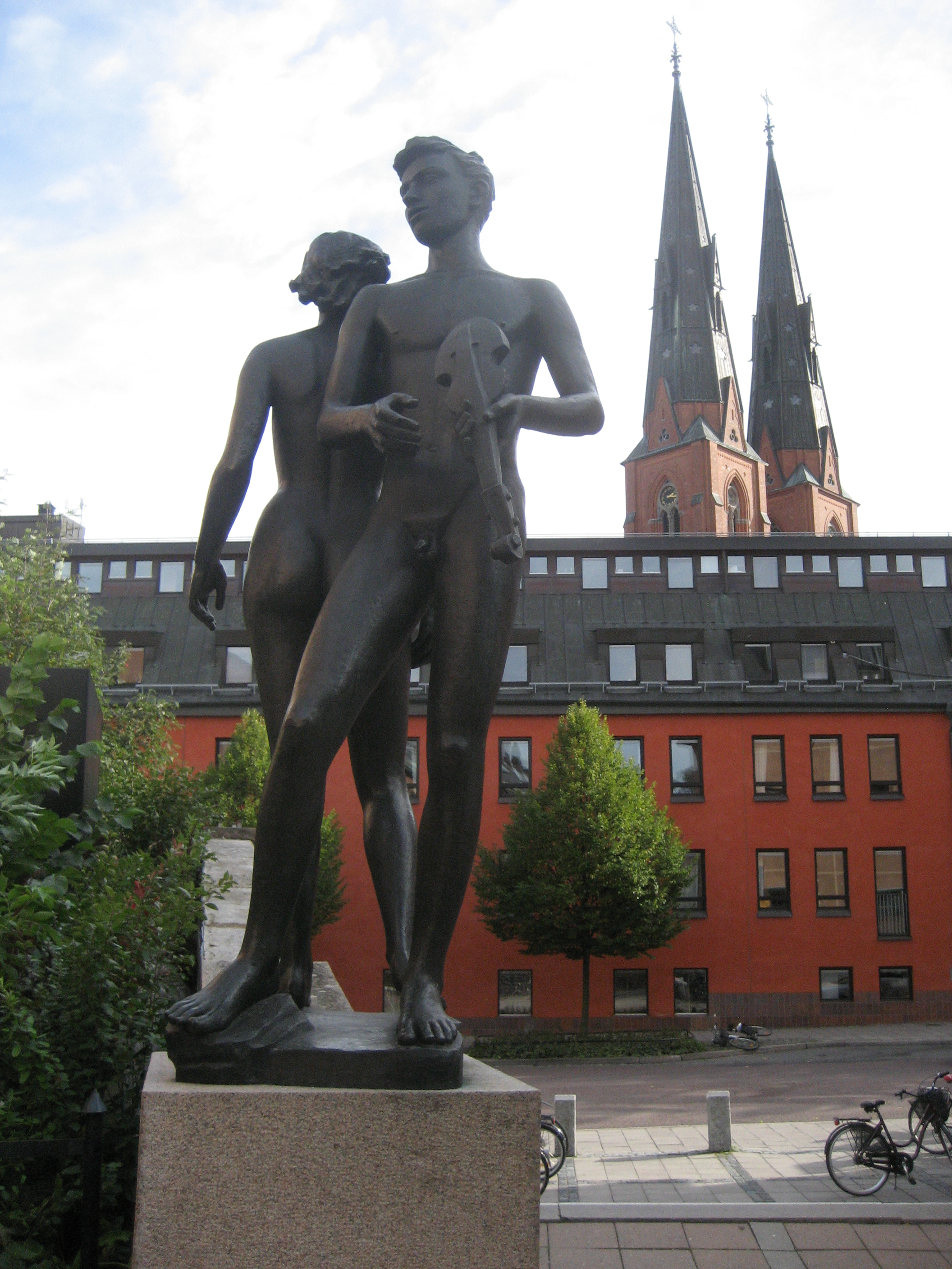 Folkvisan by Swedish sculptor Axel Wallenberg (1898-1996), Uppsala (Sweden)